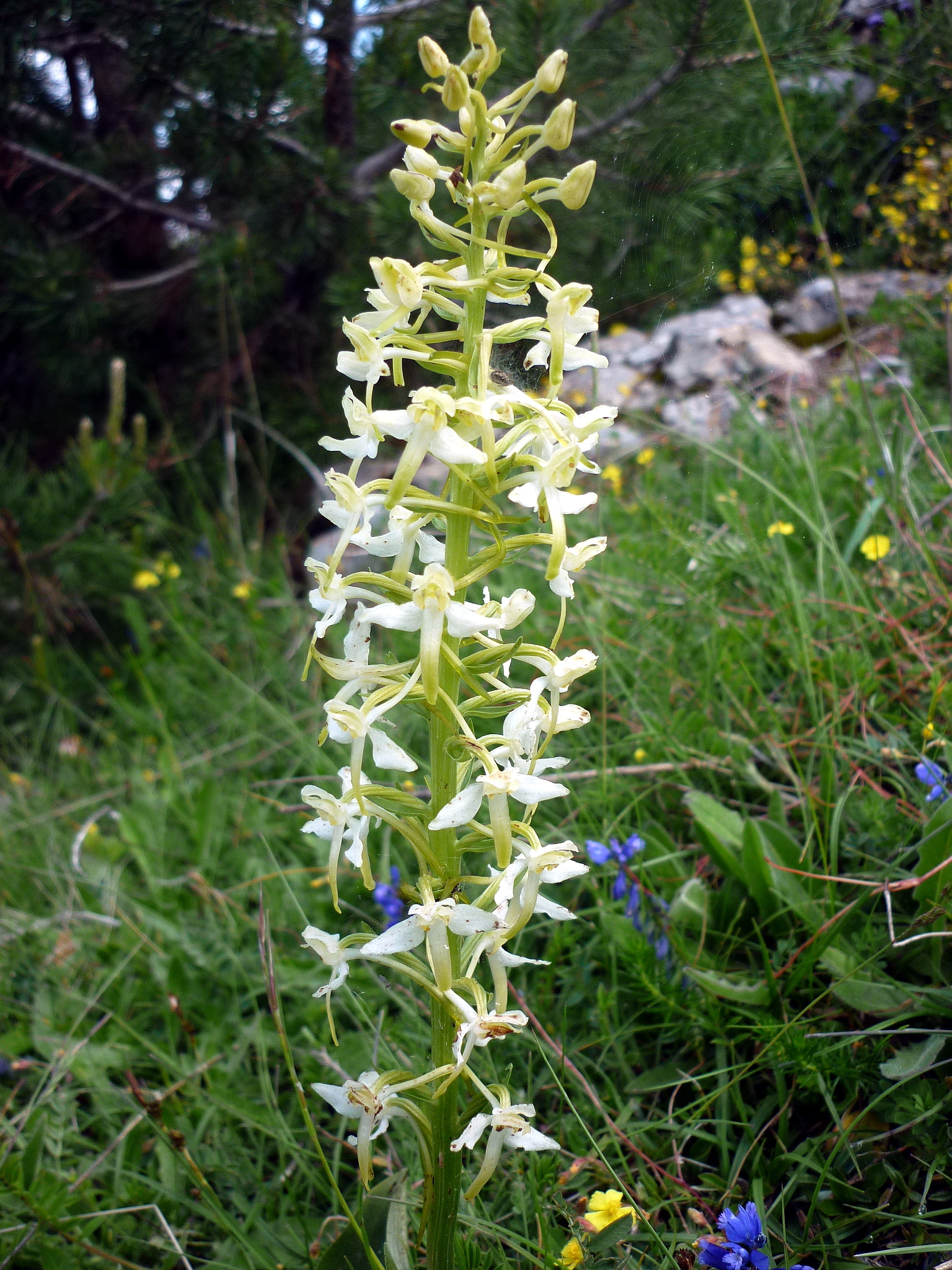 Platanthera bifolia. In Muntanya d'Alinyà (Alt Urgell-Catalunya). To 1.770 m. altitude